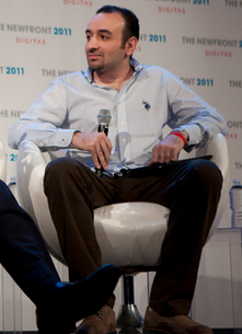 Picture of Amr Salama